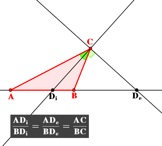 this is a sister of File:Angle_bisector_theorem.png but this contain only the statement and not the proof